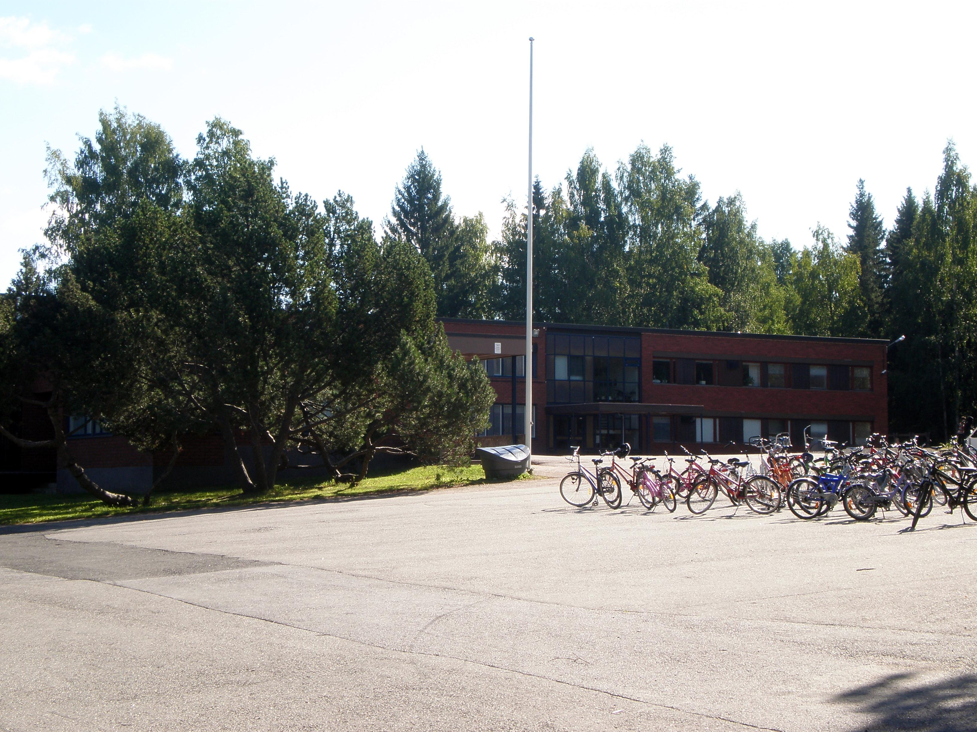 Vuorentausta school in Ylöjärvi, Finland